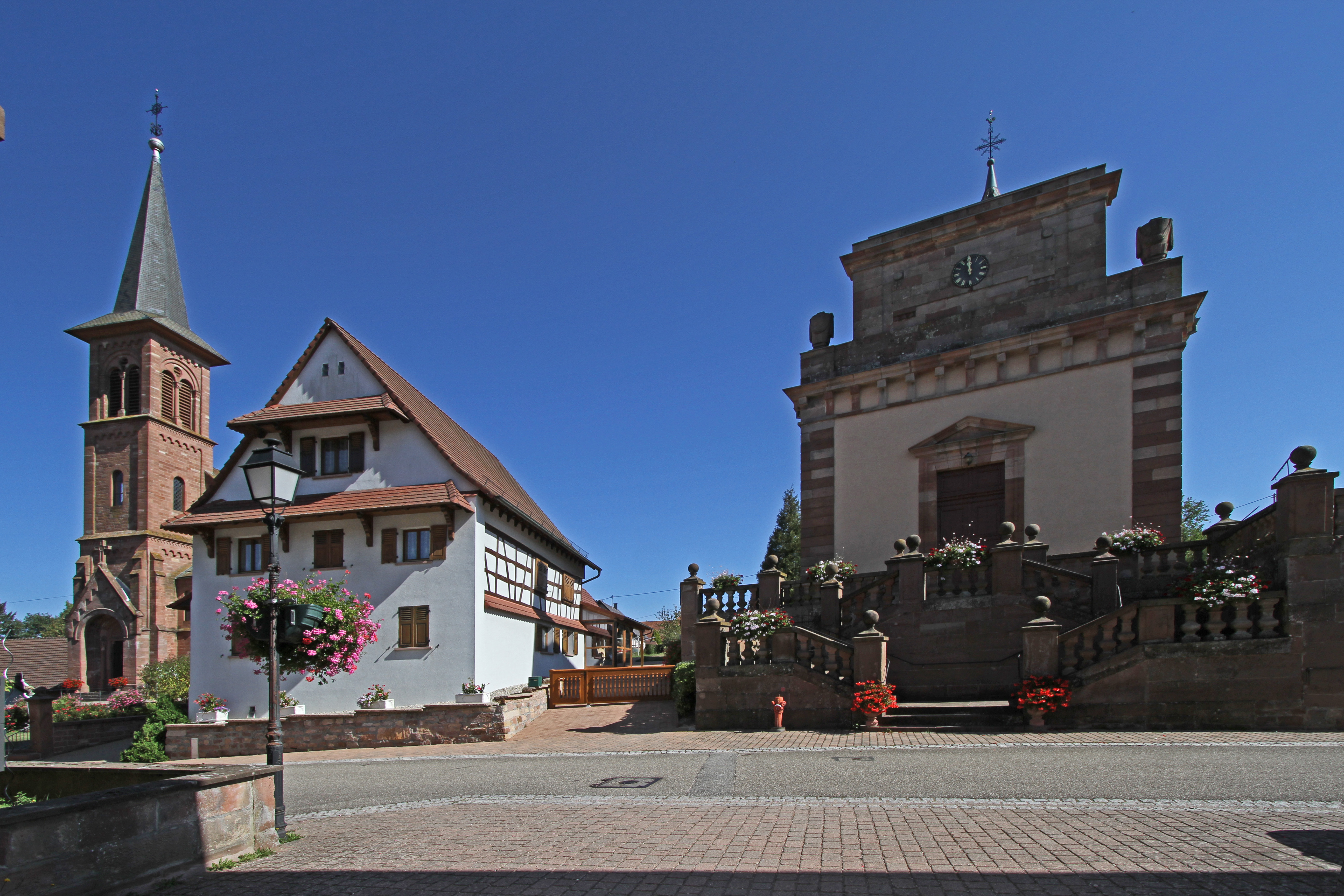 Church of Saint Philippe and James in Climbach.